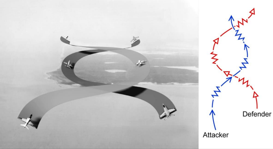 The flat scissors